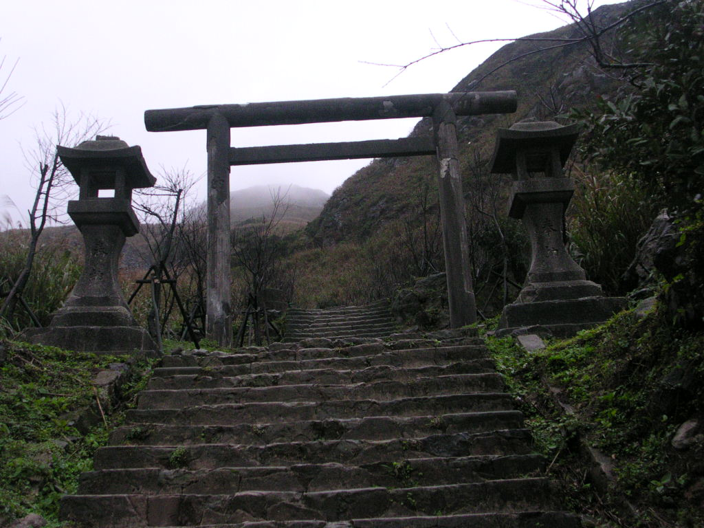 Ōgon Jinja, Rueifang, Taipei, Taiwan